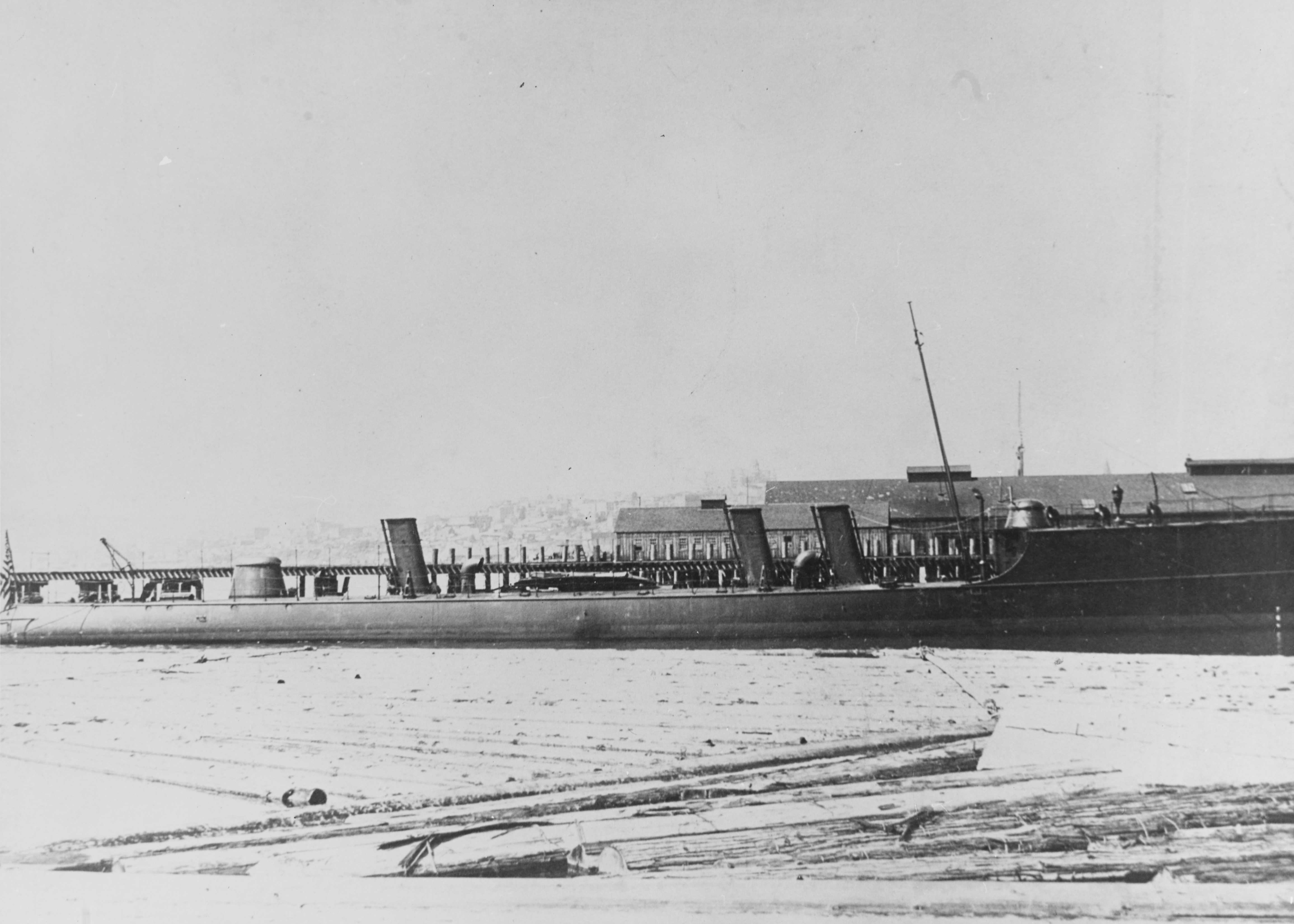 USS Rowan (Torpedo Boat # 8) In port, circa the late 1890s or early 1900s. U.S. Naval History and Heritage Command Photograph.